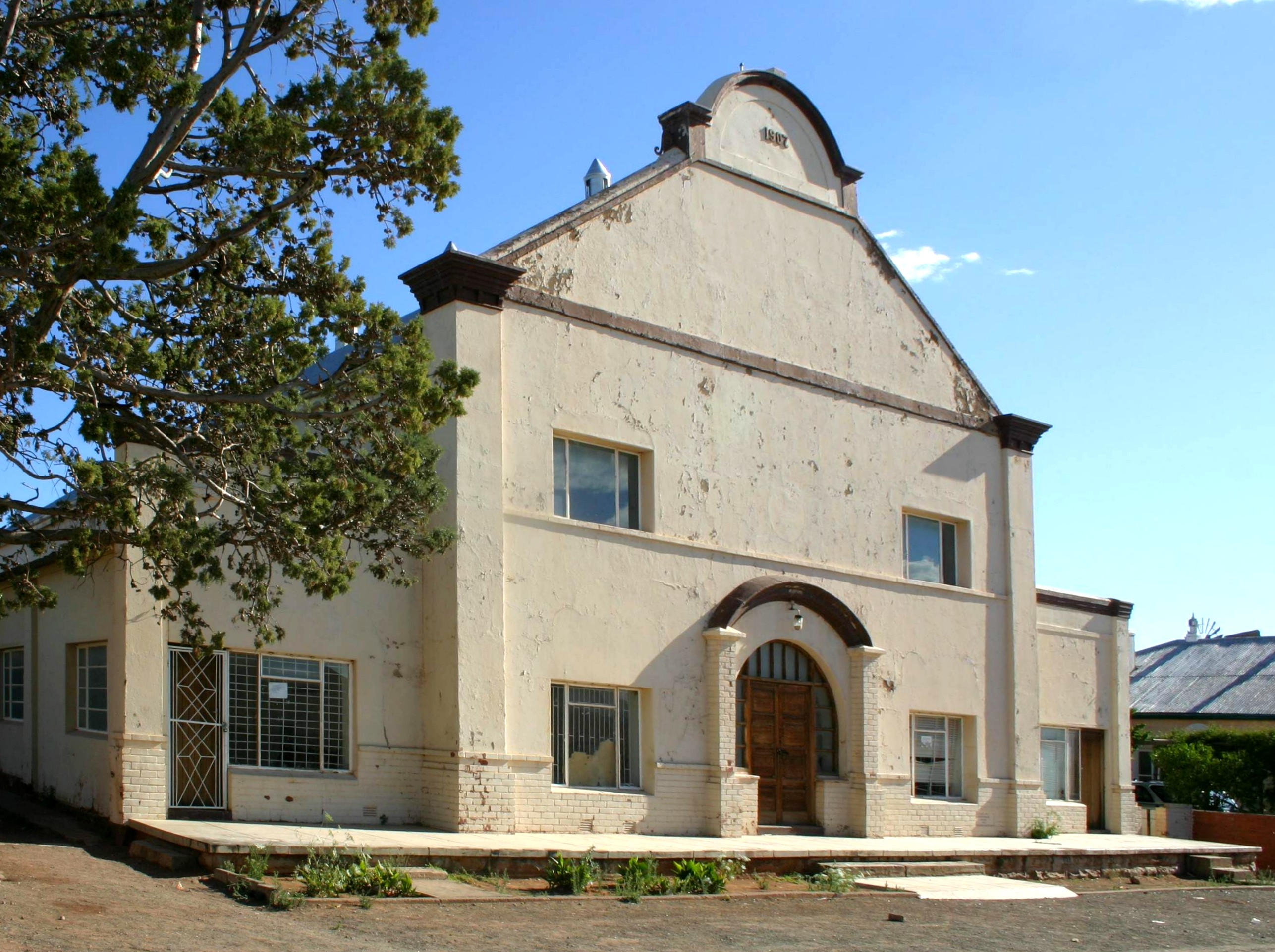 Old Hofmeyr town hall built in 1907, fallen into disrepair and neglect